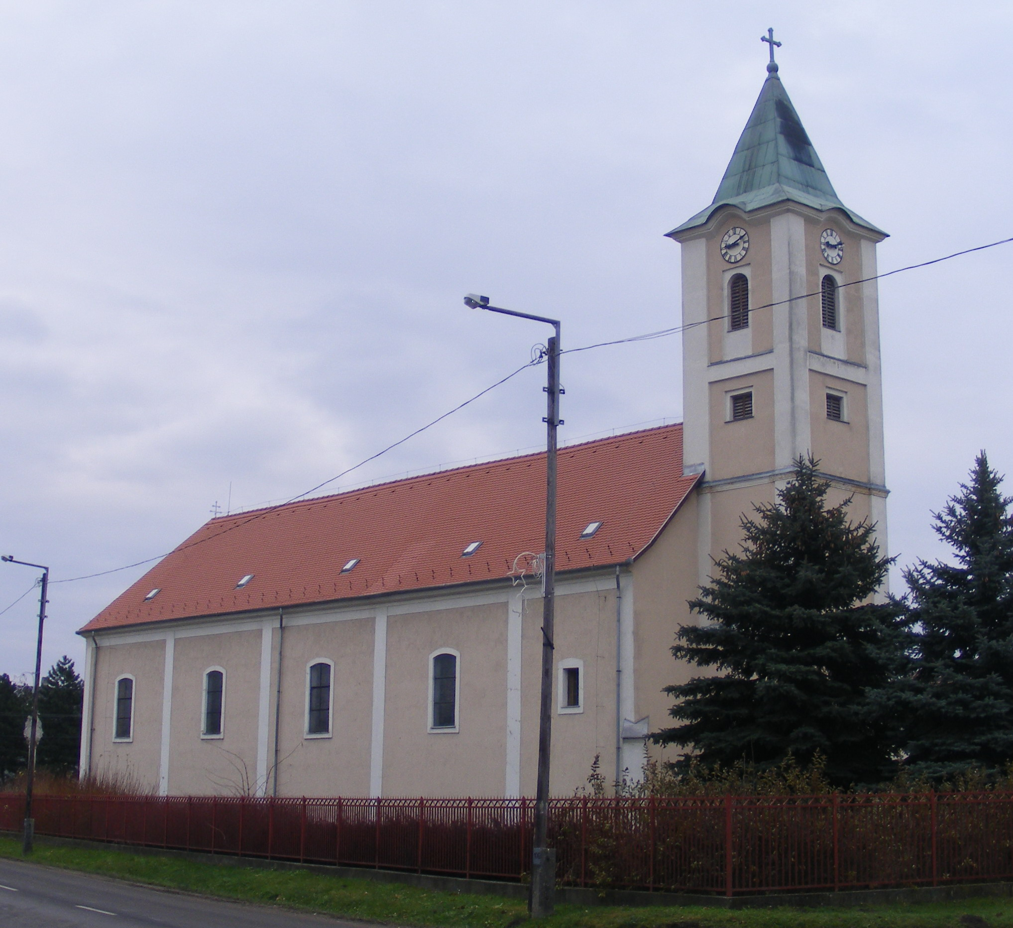 Hungary Galgahévíz. Cathoolic Church.